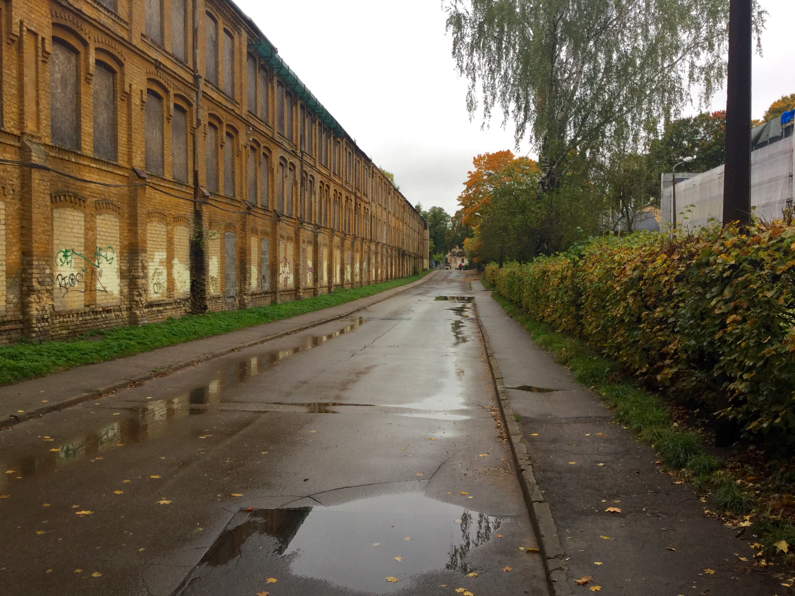 Riga, Cieceres street.